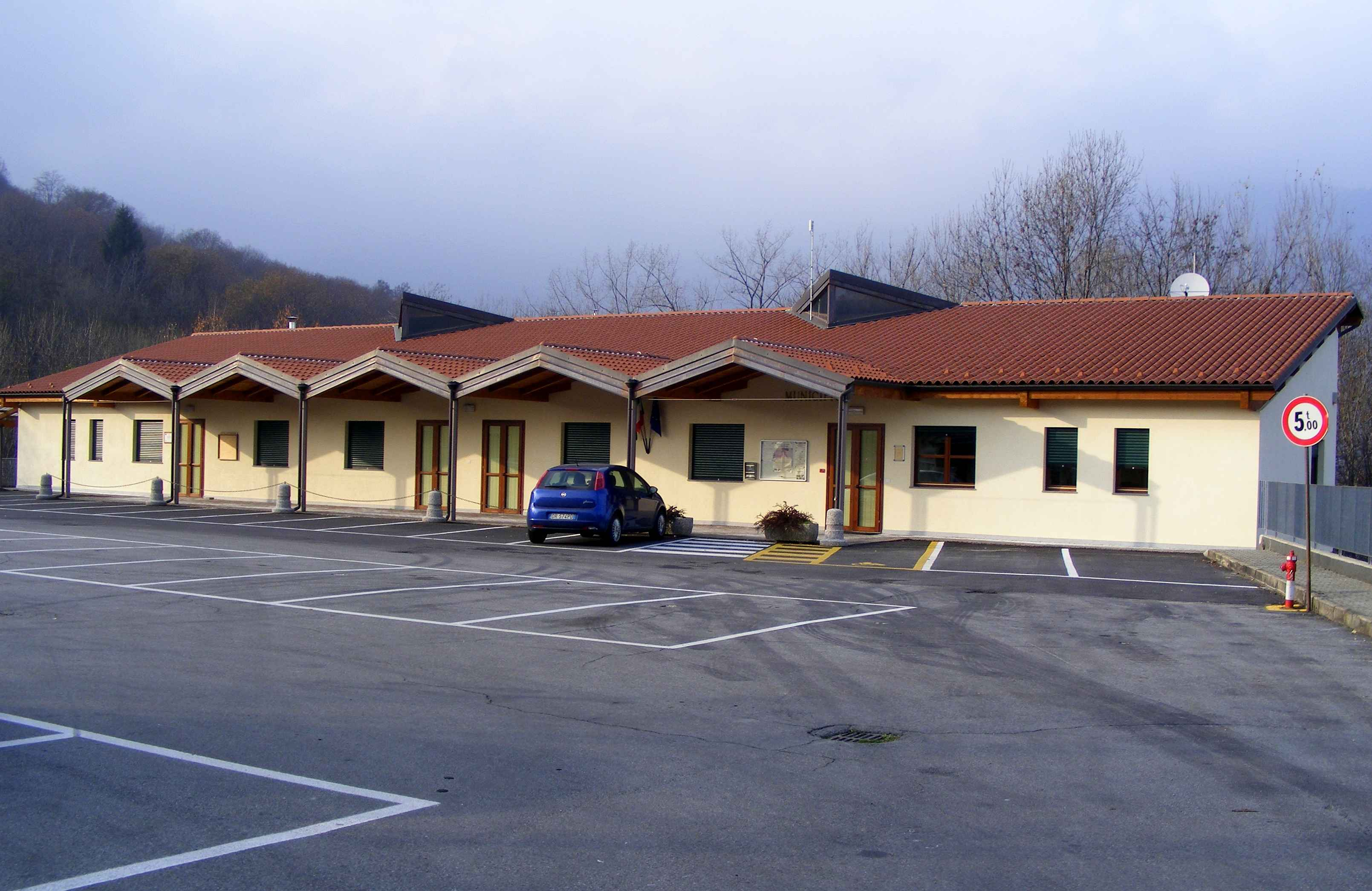 Prascorsano (TO, Italy): town hall